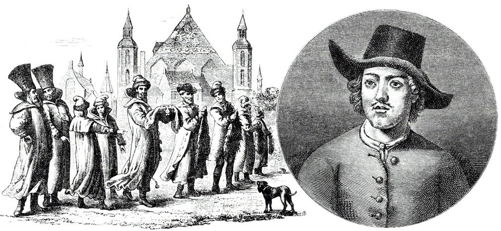 Greate embassy of Peter I in Europe in the years 1697 and 1698 AD. At the right a portrait of Peter in the clothes of a sailor/seaman/mariner in the time of his stay in the Dutch town of Zaandam. Combined engravings by Marcus. == Великое посольство Петра I в Европу (1697-98 гг.). Справа портрет Петра в одежде матроса во время его пребывания в голландском Саардаме (Саандаме). Гравюры Маркуса.